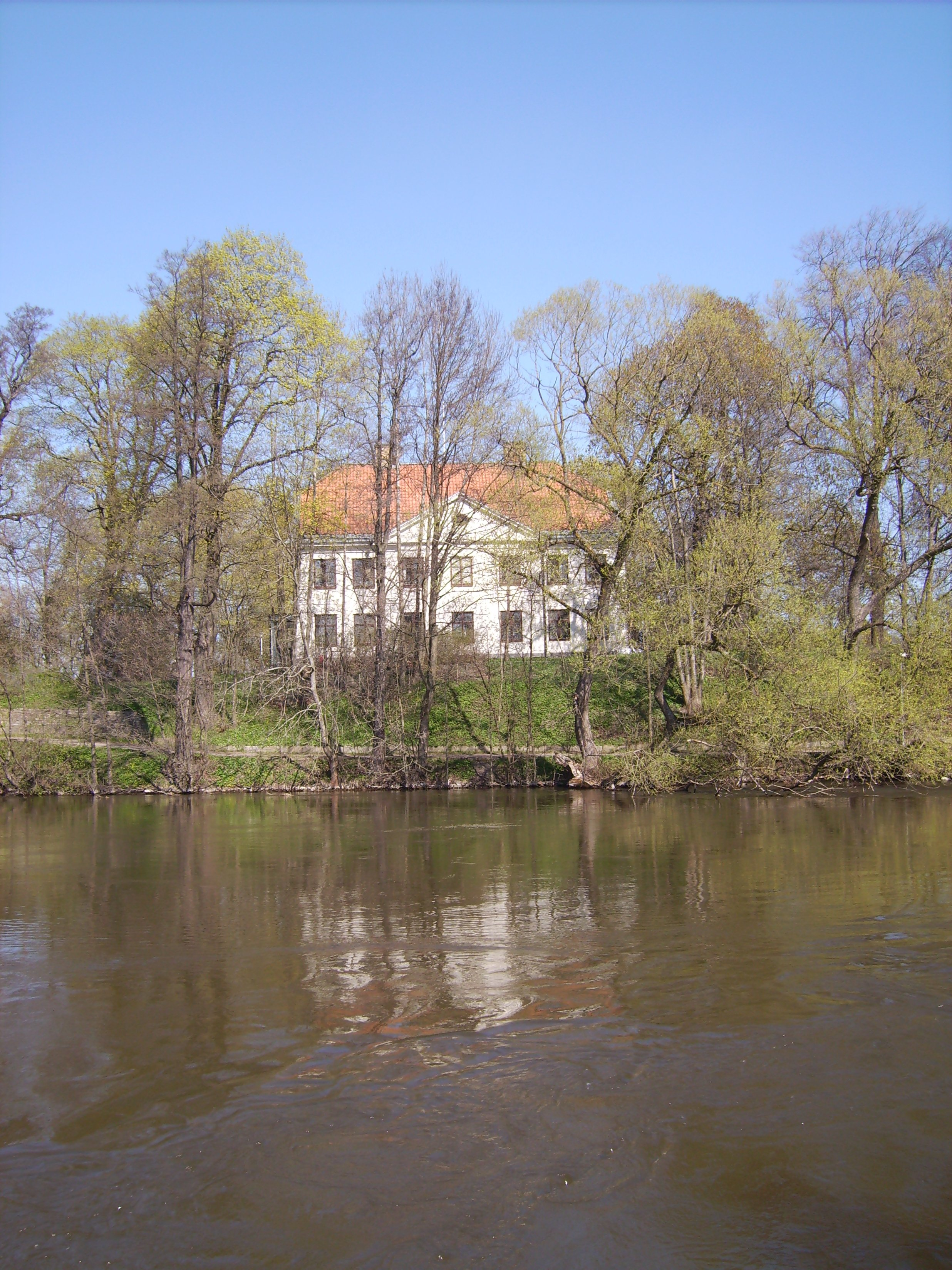 Photo by Harri Blomberg.